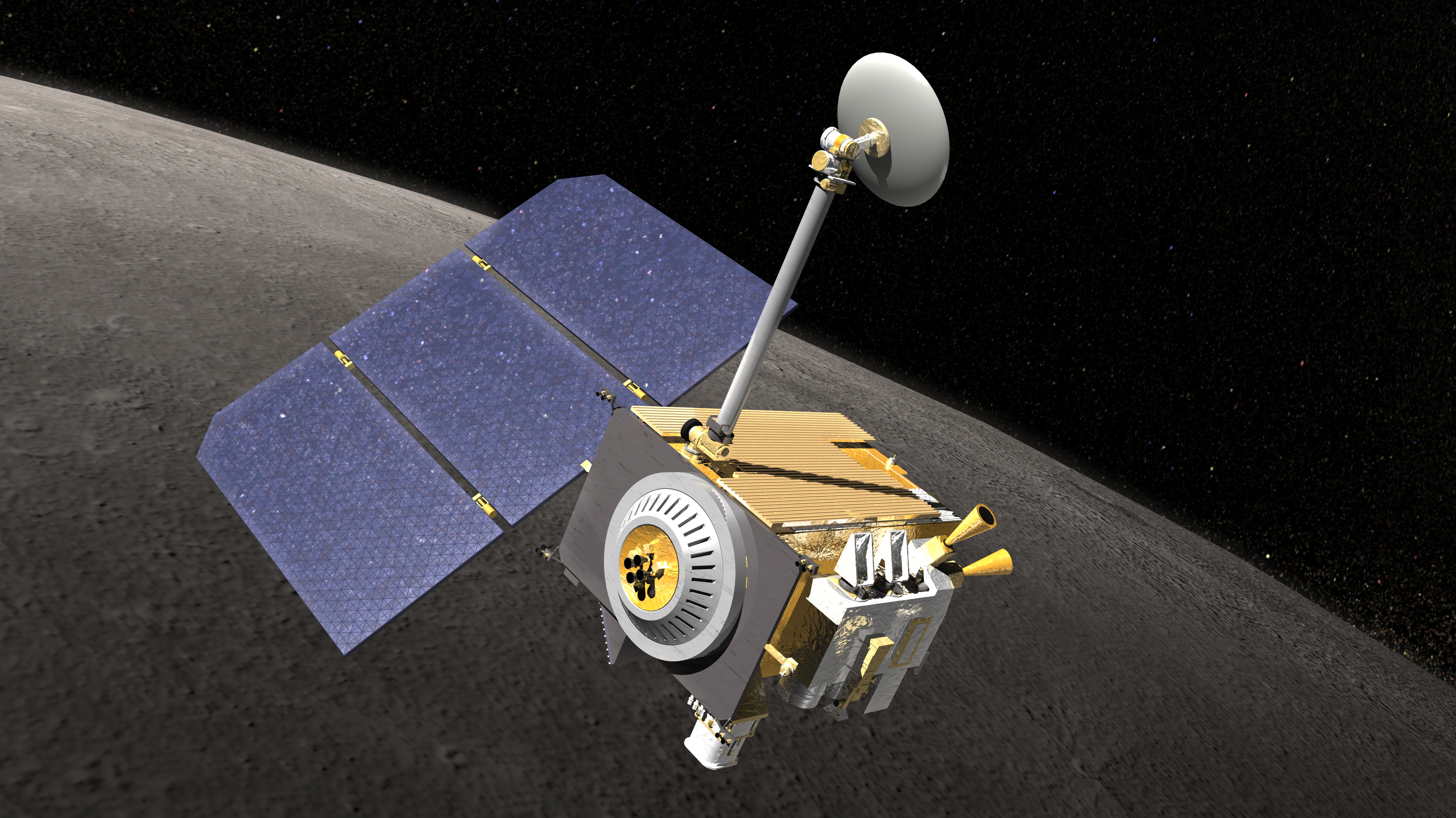 Artist concept of NASA's Lunar Reconnaissance Orbiter.